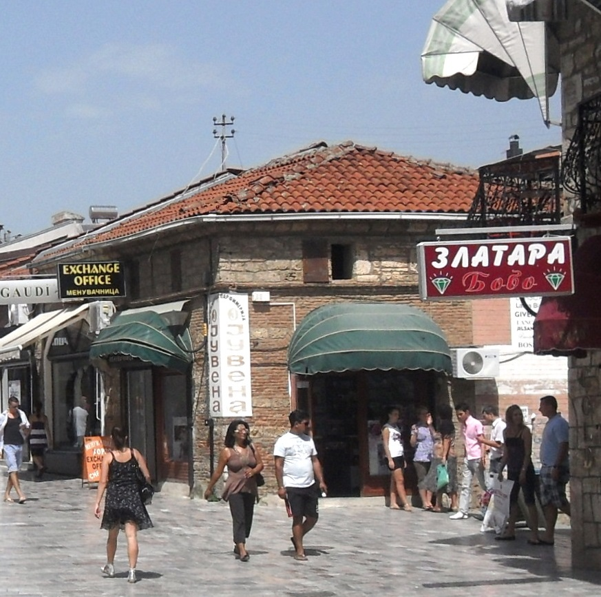 Street in Ohrid